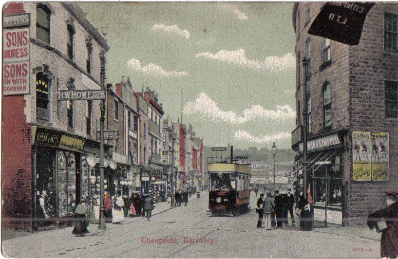 Barnsley and District Tramway tram on Cheapside in Barnsley, ca. 1904